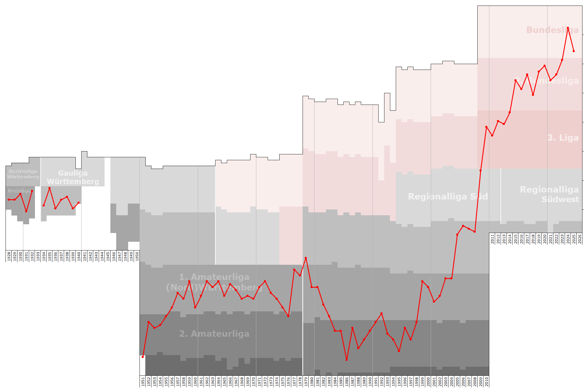 Chart of end-season table positions of 1. FC Heidenheim in the football league system of Germany. Data source: RSSSF, wikipedia, f-archiv.de, fussball.de